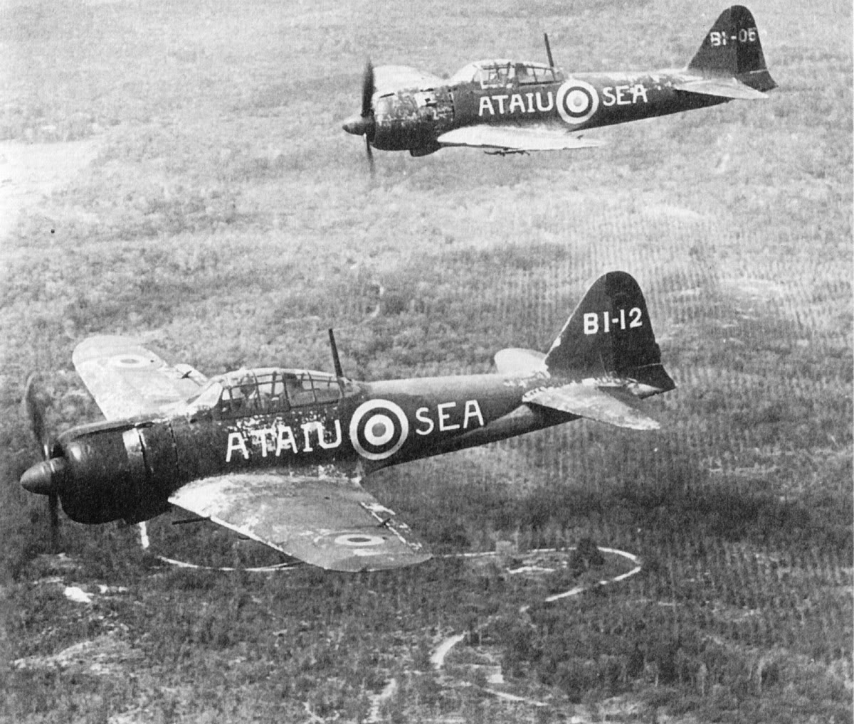 Japanese aircraft taken over by the Allies in Malaya were tested and evaluated by Japanese naval pilots under the supervision of Royal Air Force officers. Here two Mitsubishi A6M naval fighters (known to the Allies as 'Zeke') are flying in formation during their evaluation.